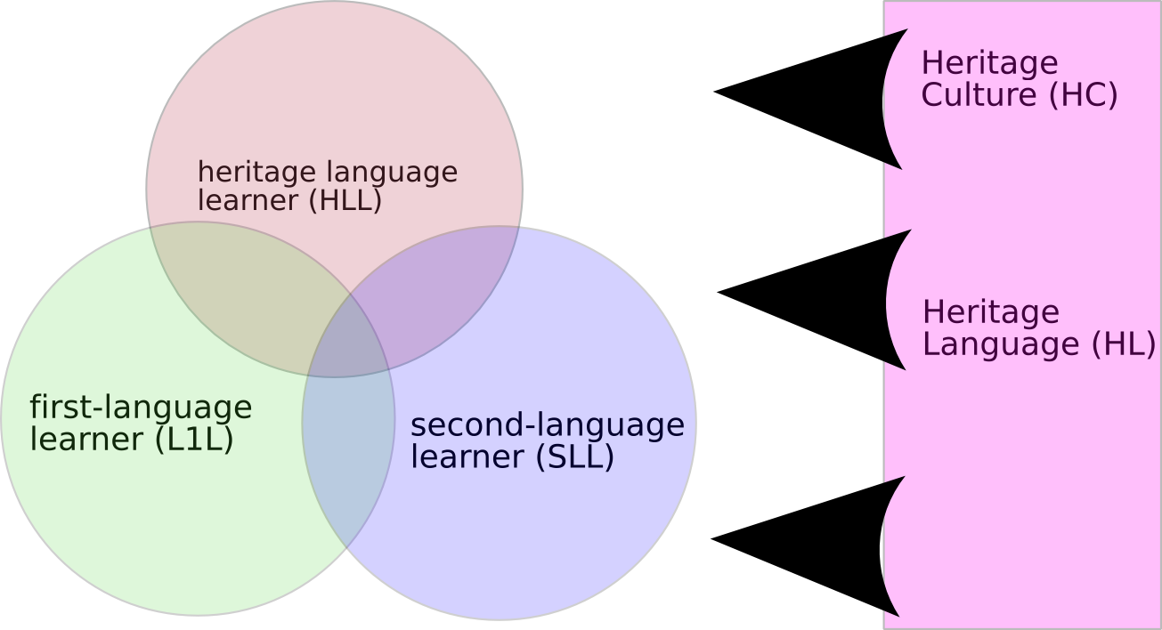 linguistics : heritage learner - categories